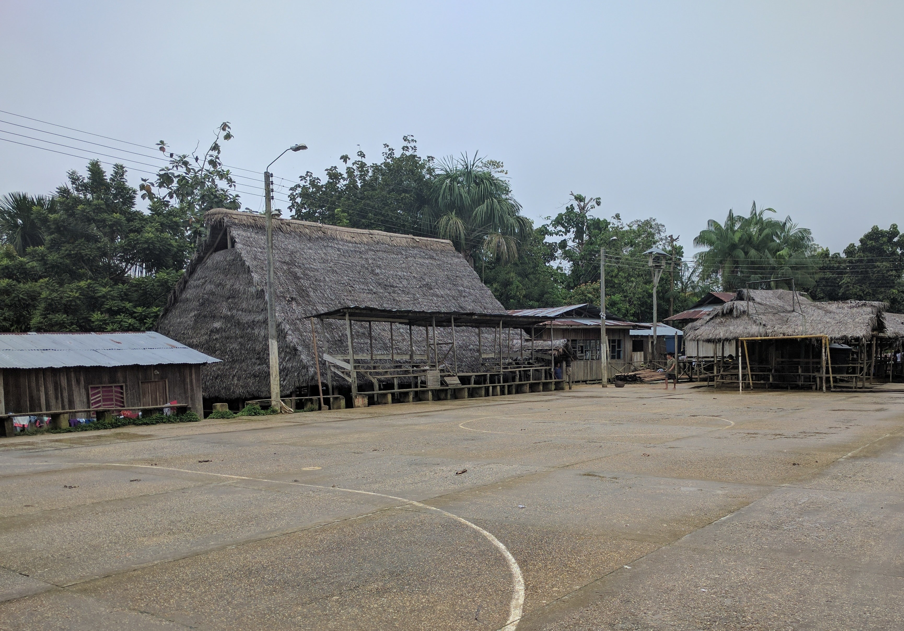 A Maloca Nowadays, on the bank of the Amazon in Colombia. It serves as a public building and a sacred community space